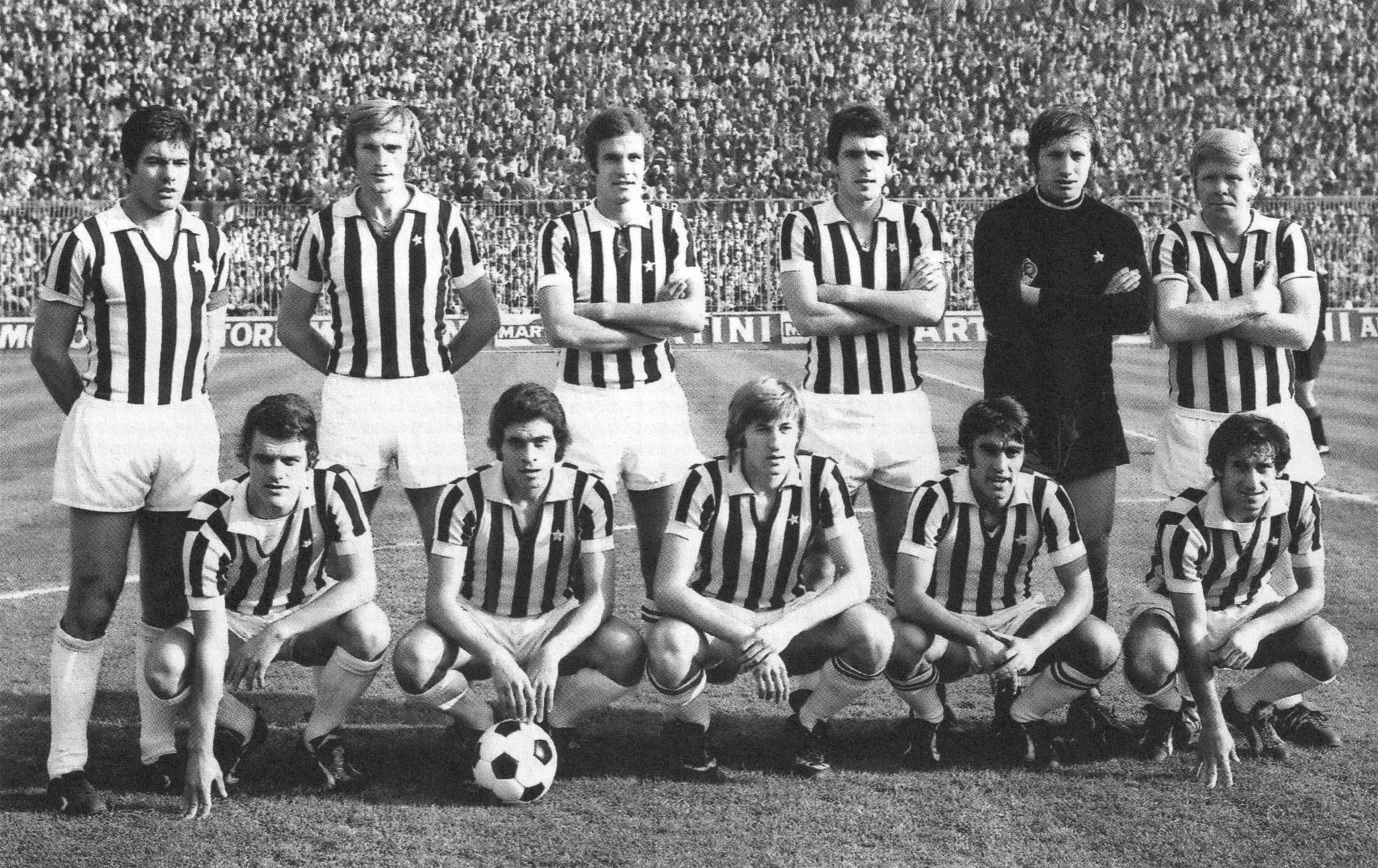 Milan (Italy), San Siro, October 31, 1971. The line-up of Juventus F.C. took to the pitch in the away victory versus Milan A.C. (4-1), Matchday 4 of the Italian League 1971–72 Serie A. From left to right, standing: Sandro Salvadore (captain), Francesco Morini, Luciano Spinosi, Roberto Bettega, Pietro Carmignani, Helmut Haller; crouched: Fabio Capello, Franco Causio, Gianpietro Marchetti, Pietro Anastasi, Giuseppe Furino.